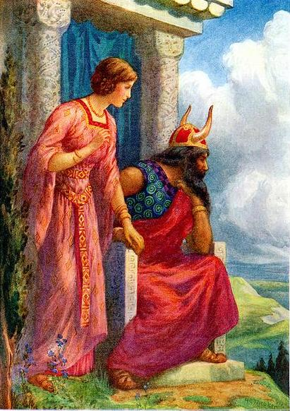 Illustration for Children's Stories from the Northern Legends by M. Dorothy Belgrave and Hilda Hart